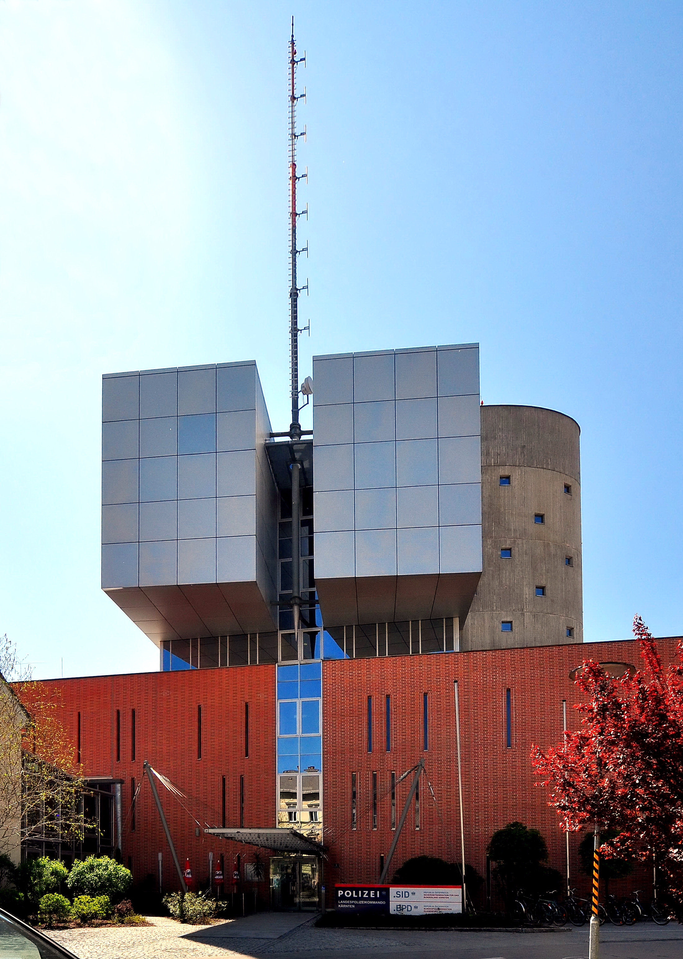 Police station center, Buchengasse #1, situated in the 7th district "Viktringer Vorstadt" of the Carinthian capital Klagenfurt, Carinthia, Austria